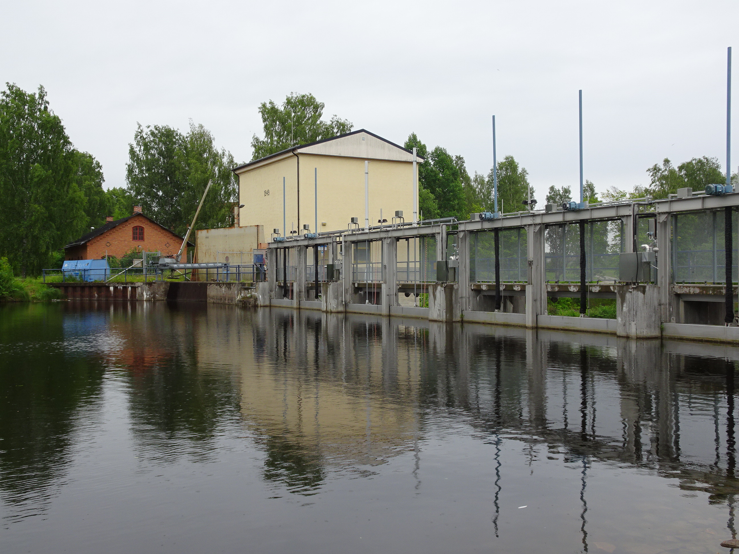 Västanfors hydroelectric power station, built in 1948 in the river Kolbäcksån, in Västanfors, near Fagersta in Sweden.